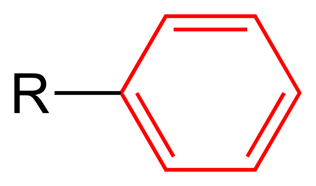 Structure of the phenyl group (in red) within a general phenyl compound